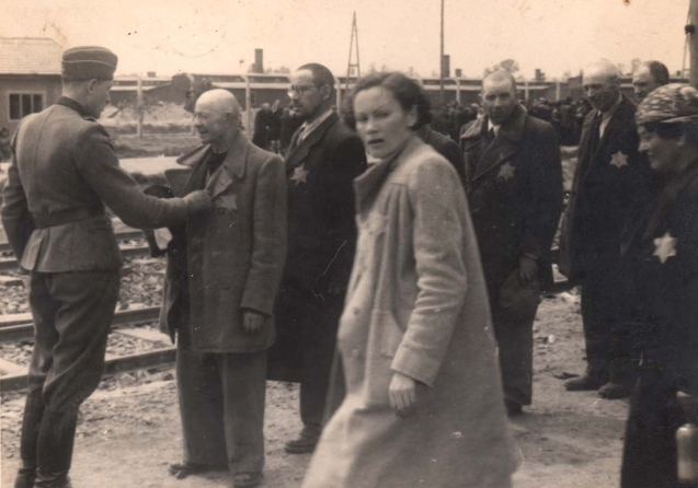 Birkenau, Poland, Geza Lajtos from Budapest during a selection on the ramp in front of an SS physician. Photographs documenting the arrival process of Hungarian Jews from the Tet Ghetto in Auschwitz-Birkenau extermination camp during the second half of 1944.